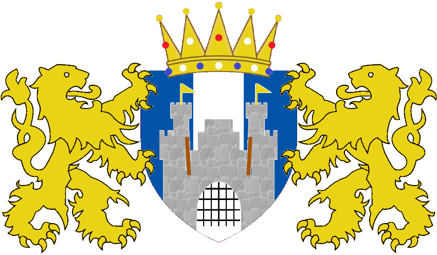 The armorial achievement of The Earl of Sodor